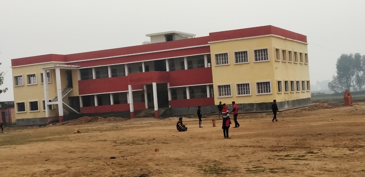 High School at Kutri, Nawada, Bihar